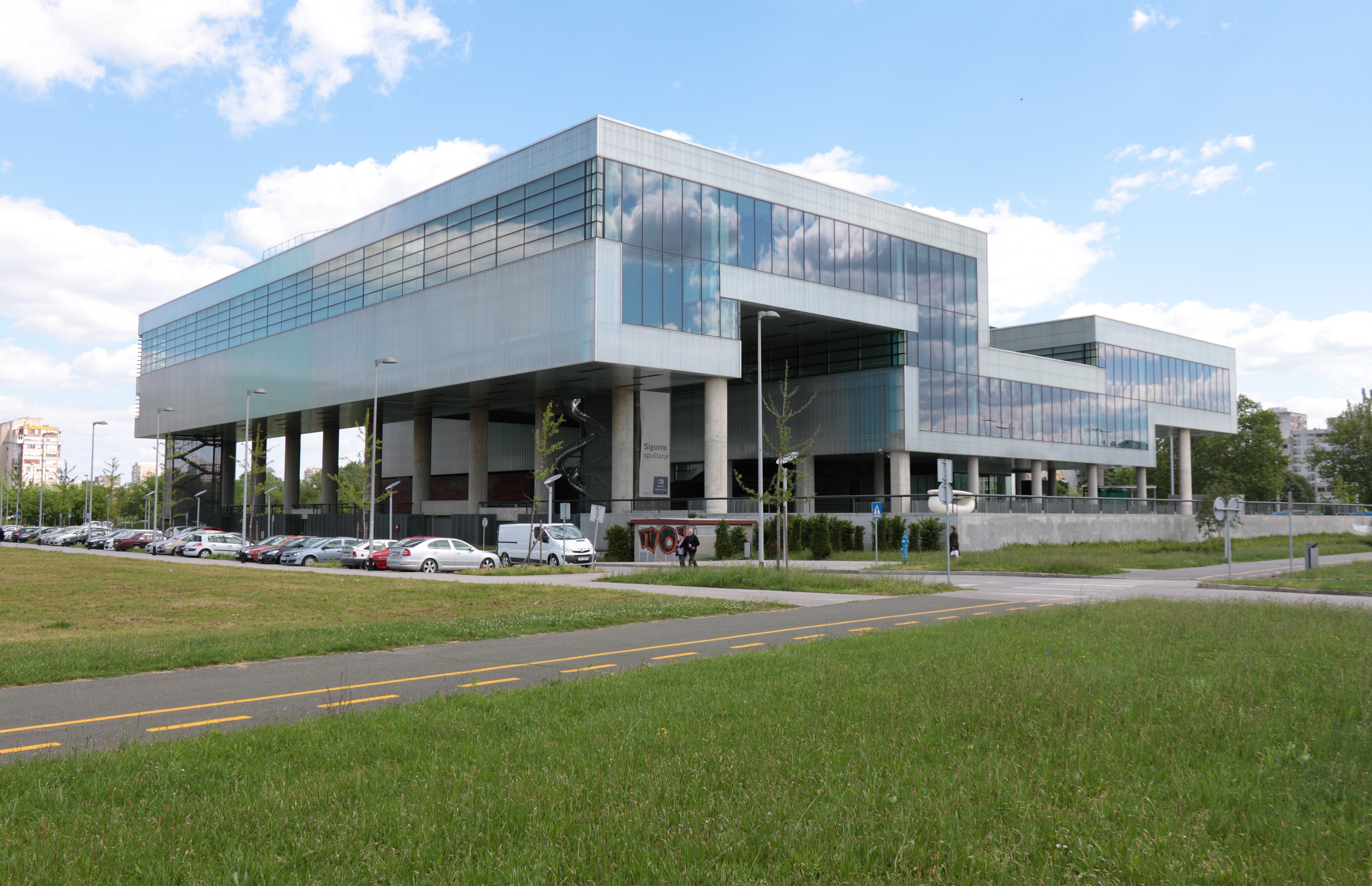 Museum of Contemporary Art, Zagreb. Architect: Ivan Franić